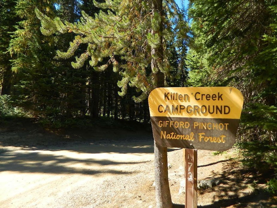 New Killen Creek Campground sign. The rustic 9-site campground is located in the Midway High Lakes Area below Mount Adams' northwestern face.